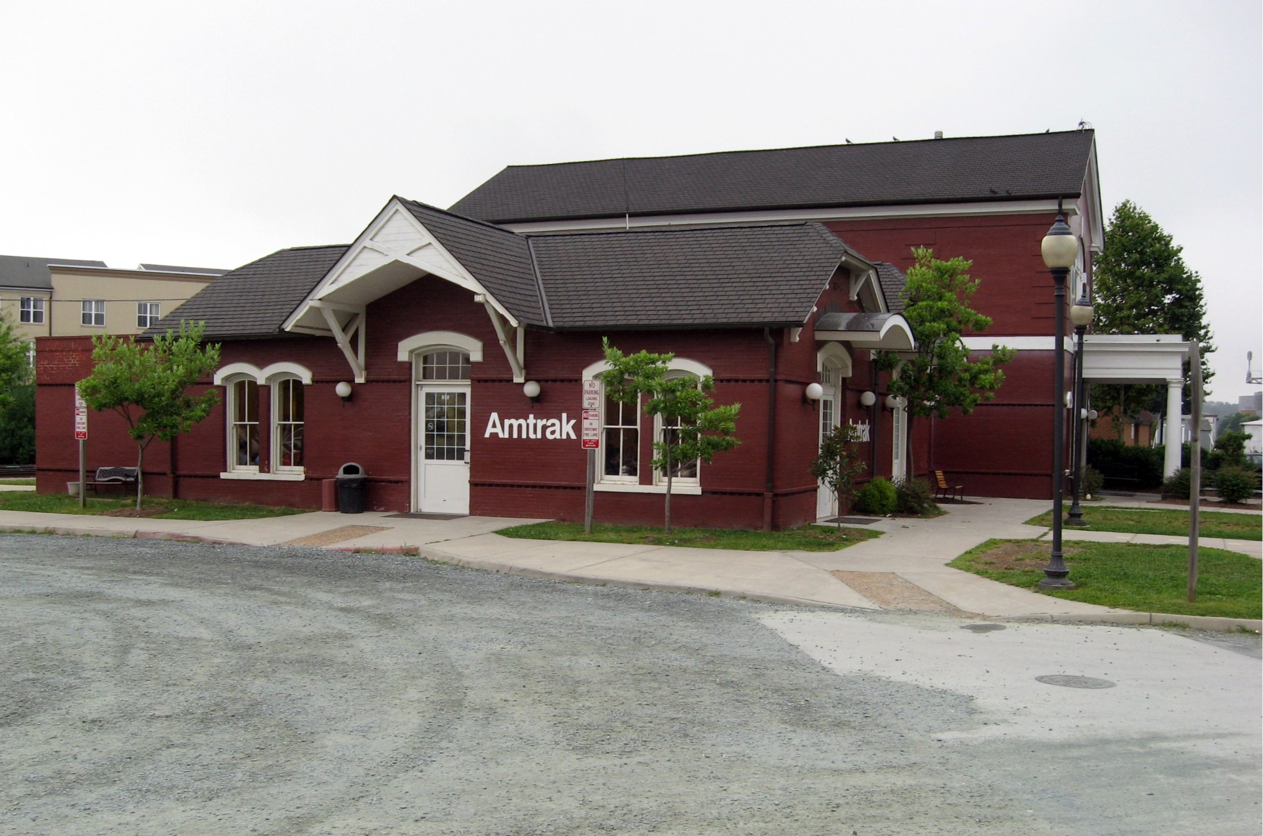 Charlottesville's Union Station was constructed in 1885 and sits between the University of Virginia and downtown Charlottesville. In 1999, Amtrak and the city of Charlottesville dedicated the newly renovated depot following a $700,000 effort. Amtrak moved out of the original station and into the former Railway Express Agency building built in the 1980s. The new facility has a more modern waiting area, ticket counter and restroom, as well as better parking lot access and the addition of a full-service restaurant. One of the unique features of this station is that its two trains serve the station on two separate tracks on either side of the station. The lines cross just south of the building.